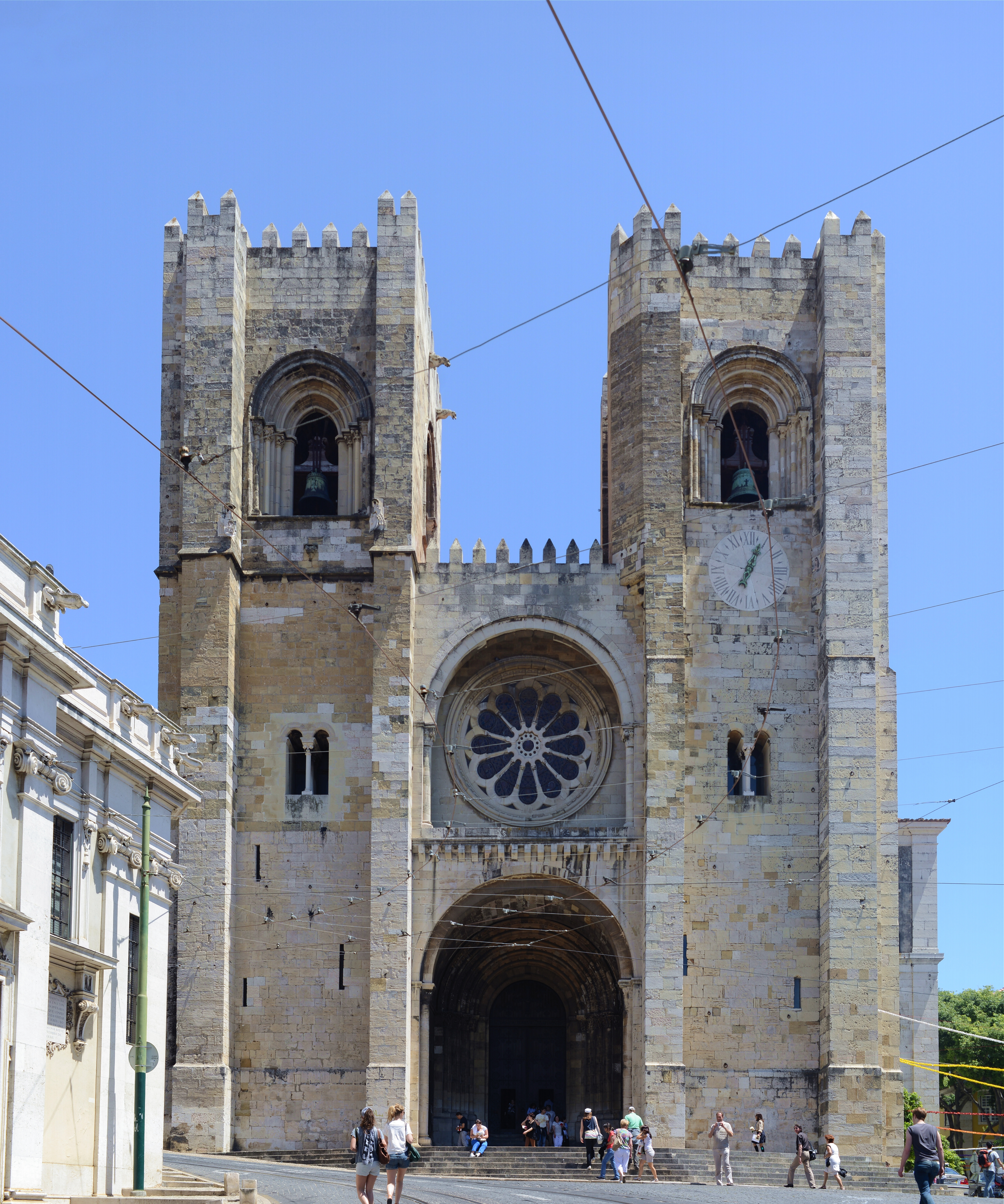 Sé de Lisboa (Cathedral of Lisbon), main facade